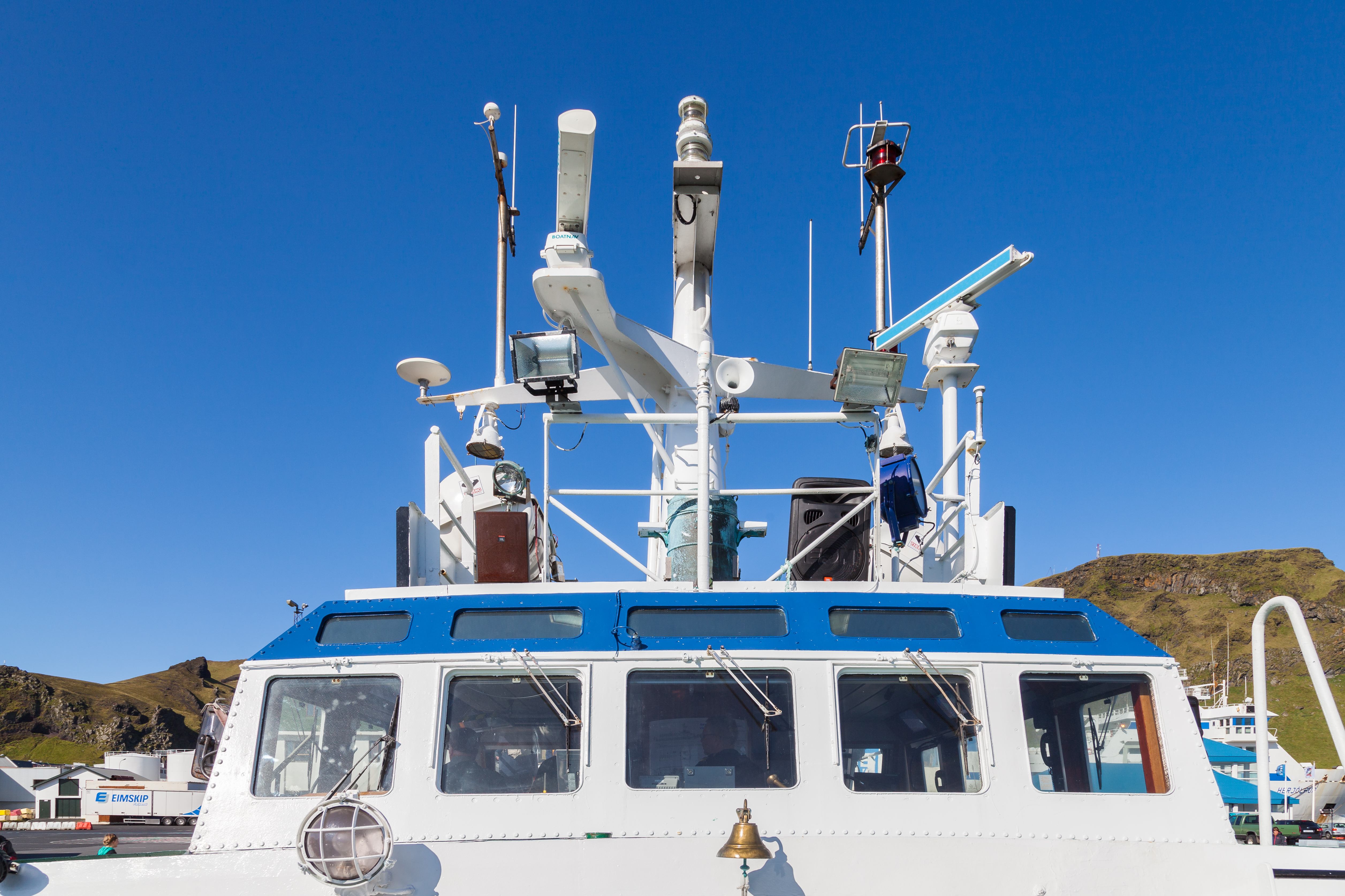 Vikingur II ship, Vestmannaeyjar harbour, Heimaey, Westman Islands, Suðurland, Iceland